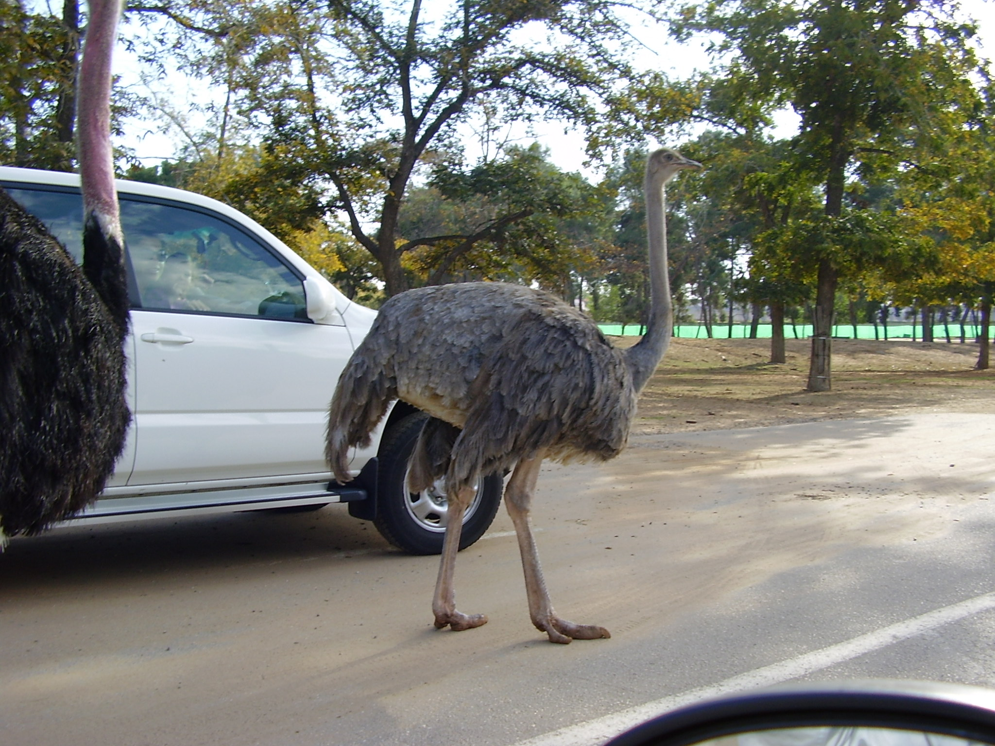 ostrich in ramat gan safari